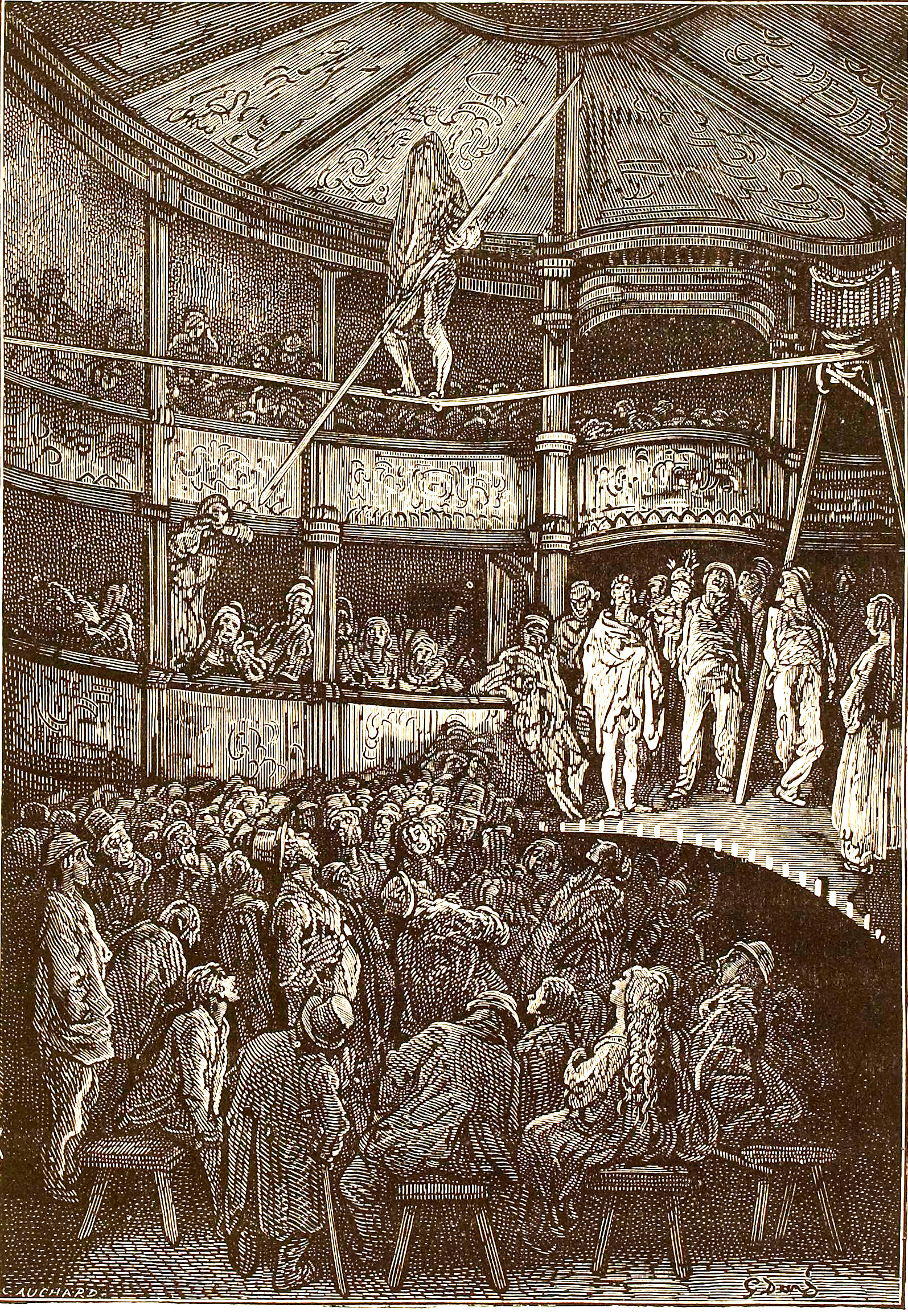 London, a pilgrimage, by Gustave Doré, and Blanchard Jerrold (Grant, London, 1872) : chapter XX, London at play. Blondin at Shoreditch.